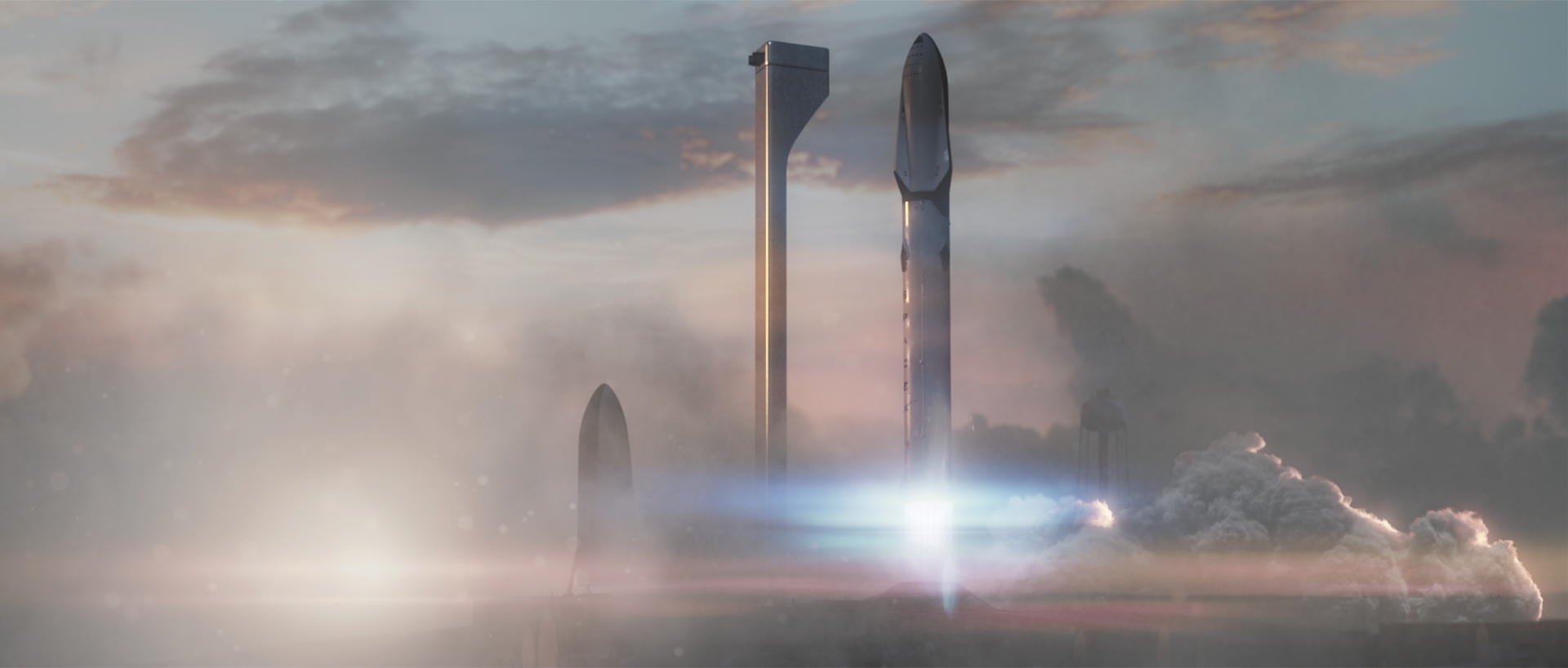 Rendering of an Interplanetary Transport System (ITS) launch vehicle lifting off. ITS tanker on left.